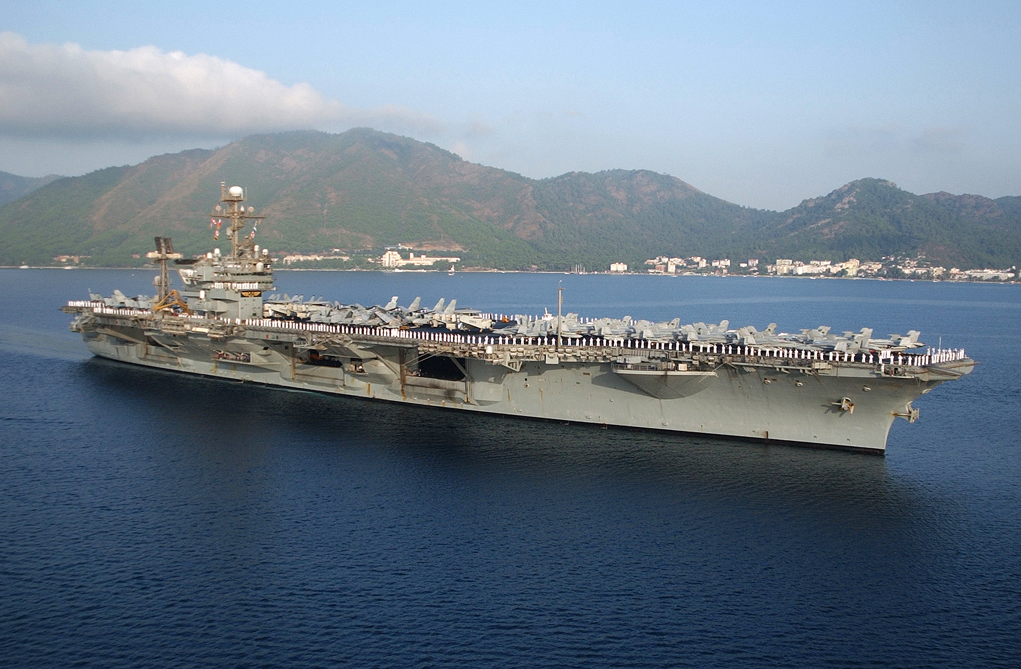 Marmaris, Turkey (Jul. 20, 2002) -- Sailors aboard USS John F. Kennedy (CV 67) man the rails as the aircraft carrier pulls into the port city of Marmaris, Turkey. Kennedy and her embarked Carrier Air Wing Seven (CVW-7) are returning to their homeport of Mayport, FL., after completing missions in support of Operation Enduring Freedom in the Arabian Gulf. Kennedy was relieved by the USS George Washington (CVN 73) and CVW-17. U.S. Navy photograph by Photographer’s Mate 1st Class Jim Hampshire. (RELEASED)